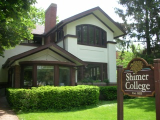 Front of 445 N. Genesee St. in Waukegan, IL. This building served as the main administration building of Shimer College from the 1990s through 2006.